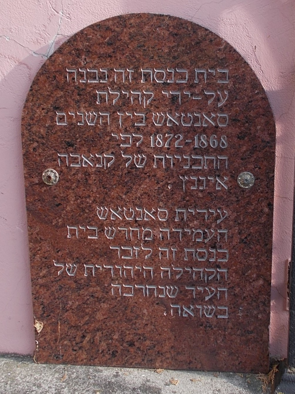 Plaque with Hebrew inscription. City Library on the Synagogue facade. Now, City Library. - 33-35 Kossuth Lajos utca, Szentes, Csongrád County, Hungary.